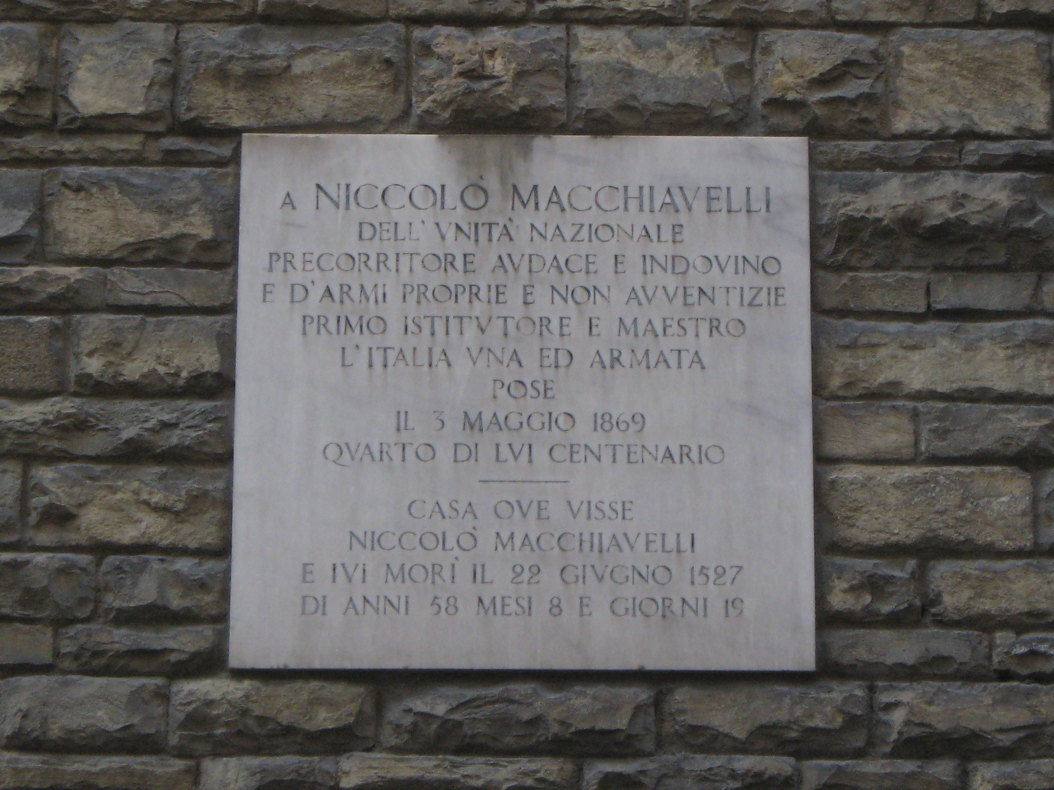 Memorial tablet for Niccolo Machiavelli in Via Guiccardini (Florence, Italy)